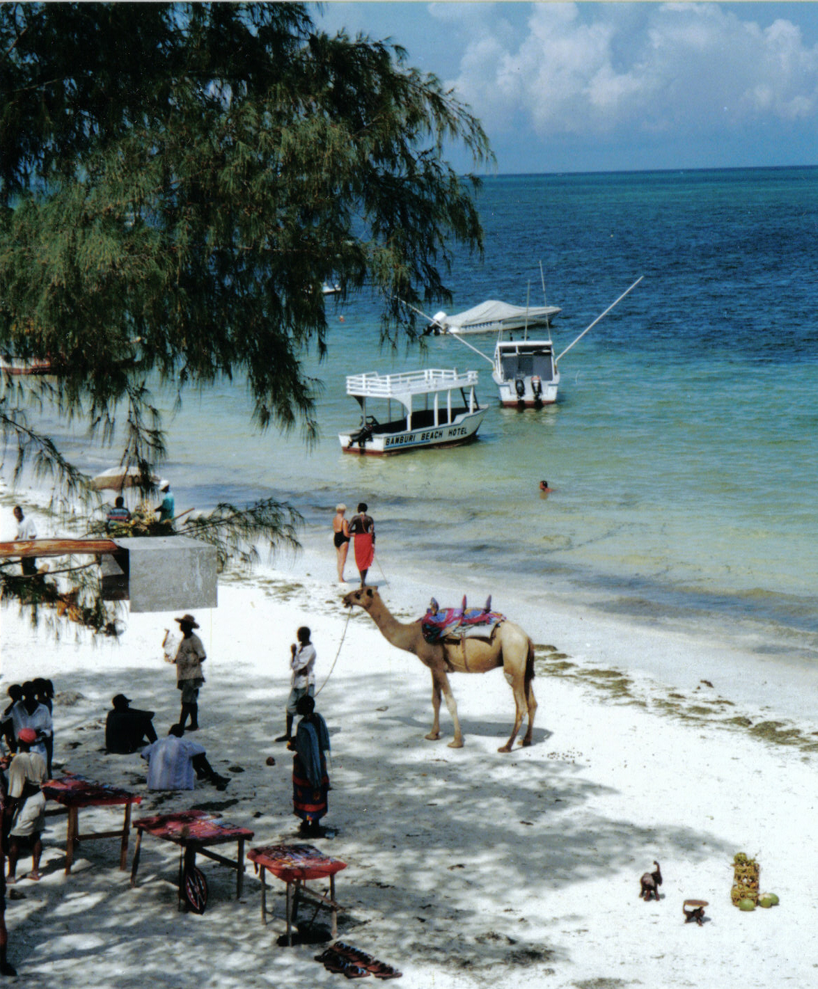 Beach north of Mombasa